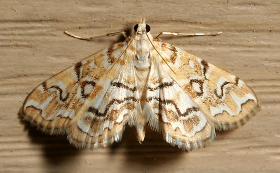 Munroessa icciusalis. Neebish Island, Chippewa County, Michigan, USA.